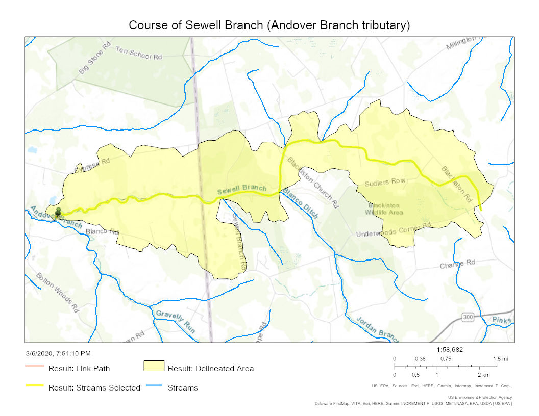 Course of Sewell Branch (Andover Branch tributary) in Kent and Queen Annes Counties, Maryland and Kent County, Delaware